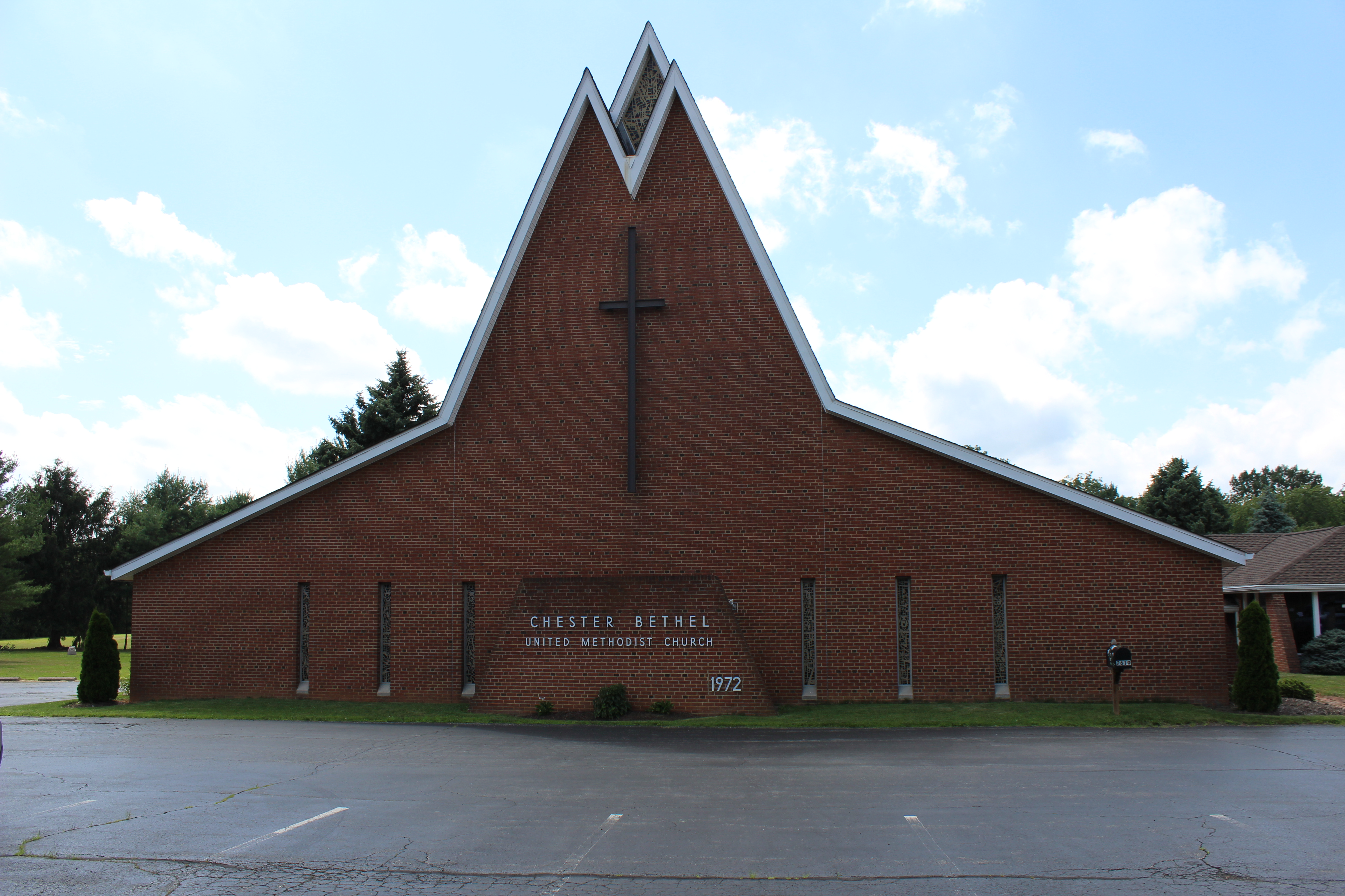 Picture of the new Chester-Bethel Church sanctuary built in 1972. My daughter Chenai Kaminski took this photo.